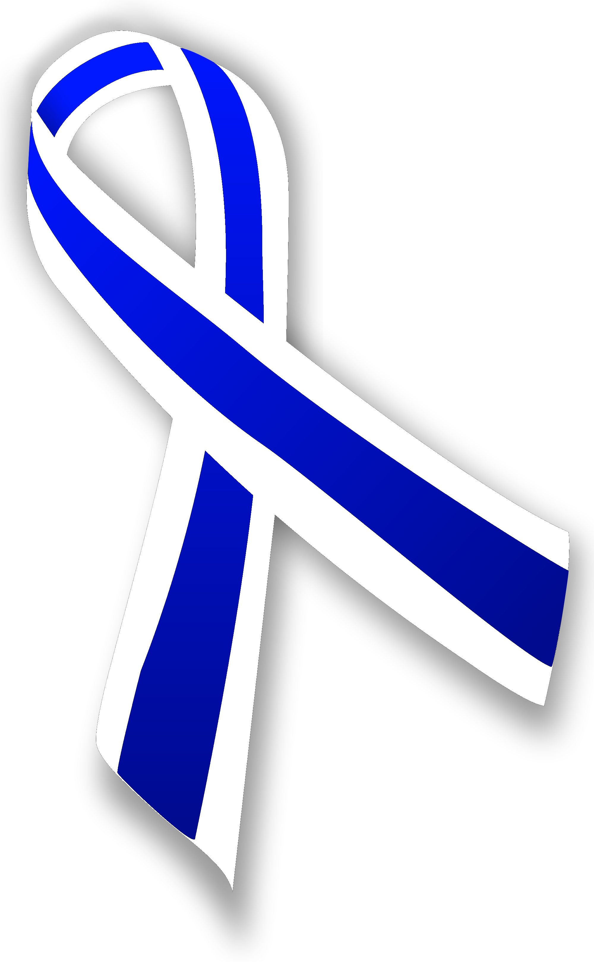 Columbine shooting remembrance ribbon